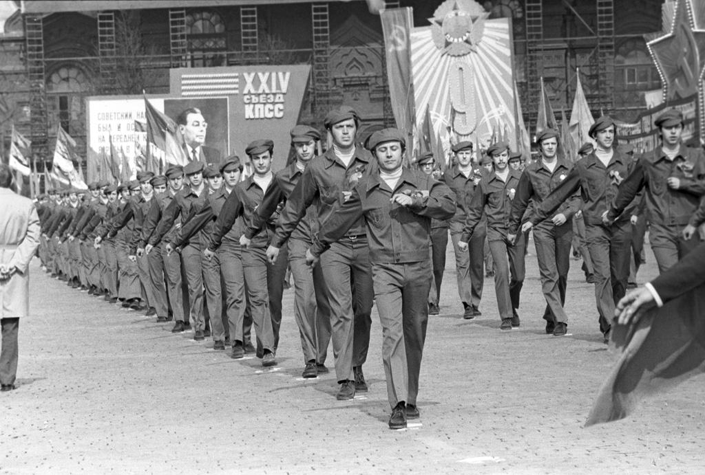 “May-Day celebrations in Moscow”. May-Day celebrations in Moscow. Komsomol construction teams marching.